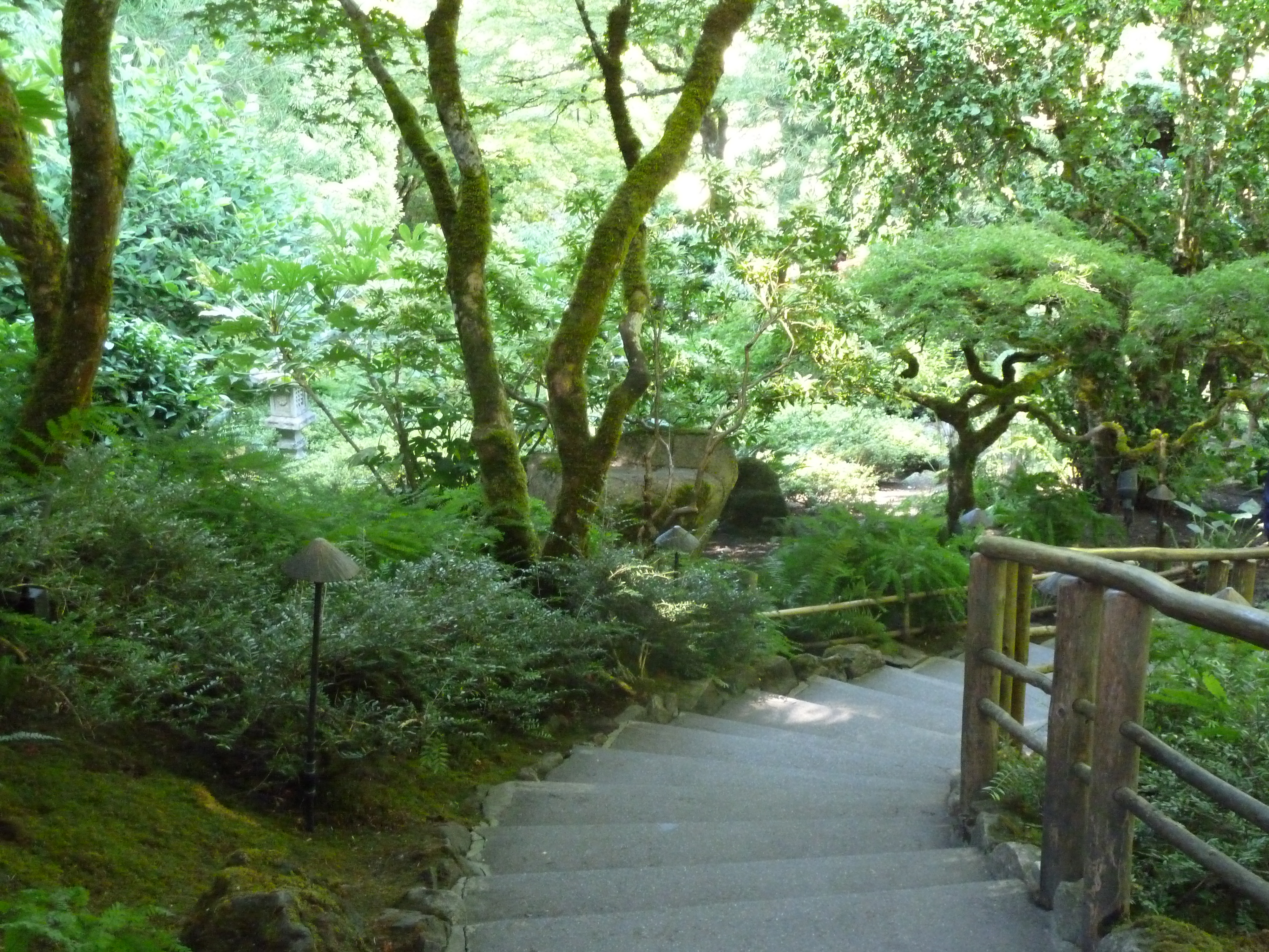 Butchart Gardens National Historic Site of Canada, British Columbia